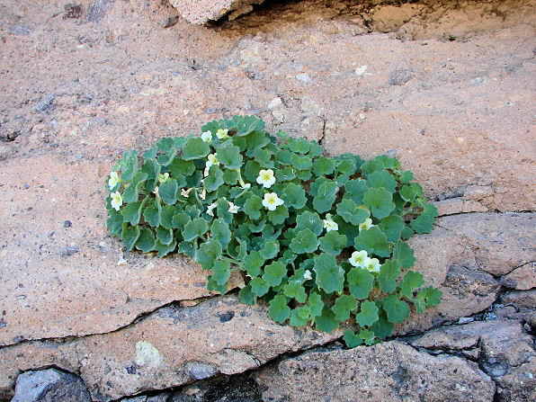 Mabrya acerifolia, on a cliff wall at Totilla Flat, Arizona